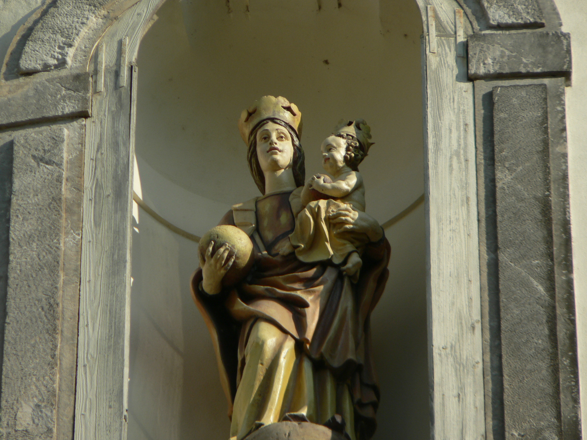 Madonna and Child, Basilica of the Visitation in Hejnice, Liberec District, Czech Republic.